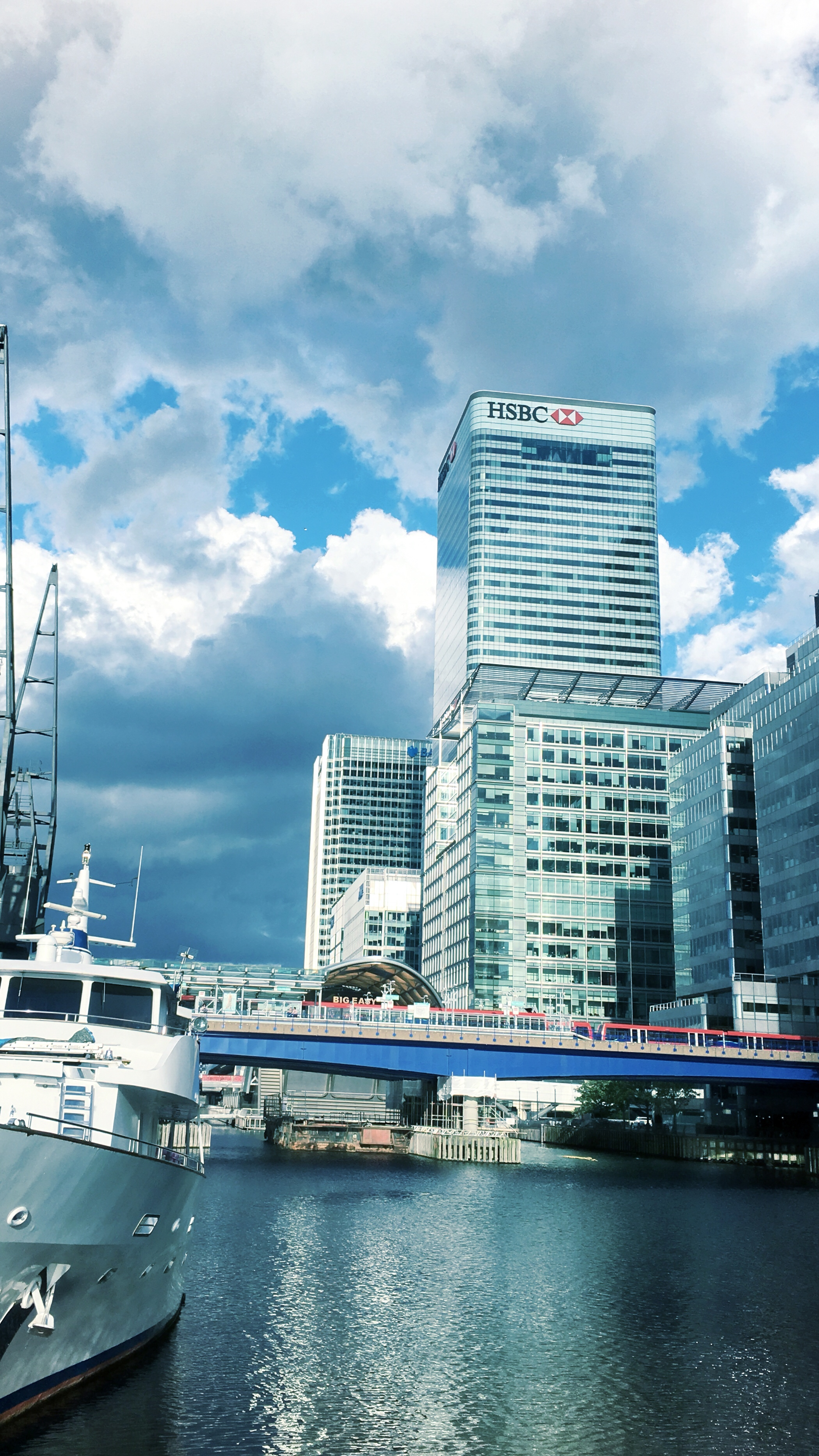 HSBC Headquarters in Canary Wharf, 2016